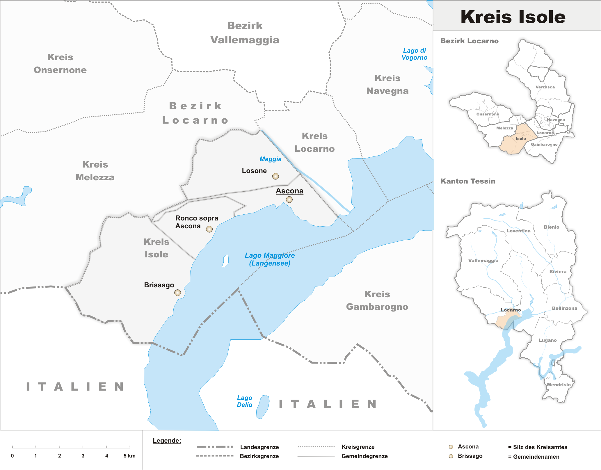 Municipalities in the circle of Isole